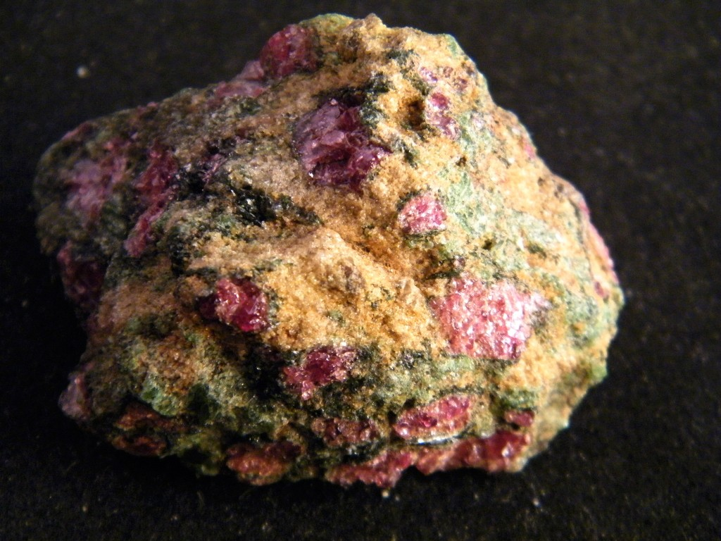 Omphacite, Almandine (Dimensions: 1.5" x 1.5" x 1.5") Locality: Nordfjord, Sogn og Fjordane, Norway Description: Nice green/red/orange contrast on a small sample of eclogite consisting of green omphacite and red almindine garnet. The gold/orange mineral is possibly altered olivine, according to a MINDAT reviewer.